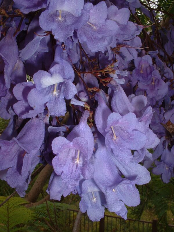 Blue Jacaranda flowers.